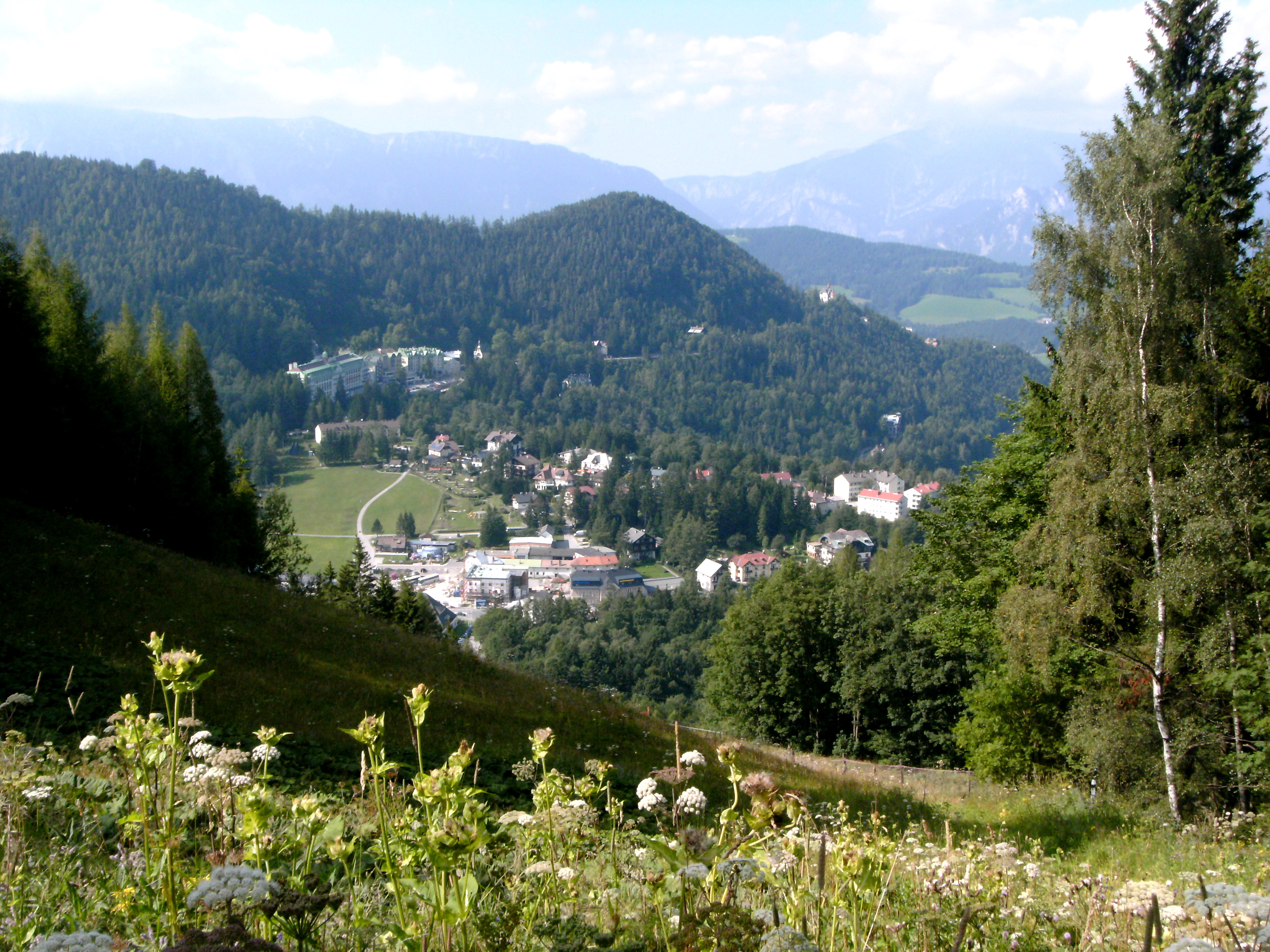 View of Semmering (Lower Austria) from the slopes of Hirschenkogel, with Rax (left side) and Schneeberg (right side) mountains in the background.